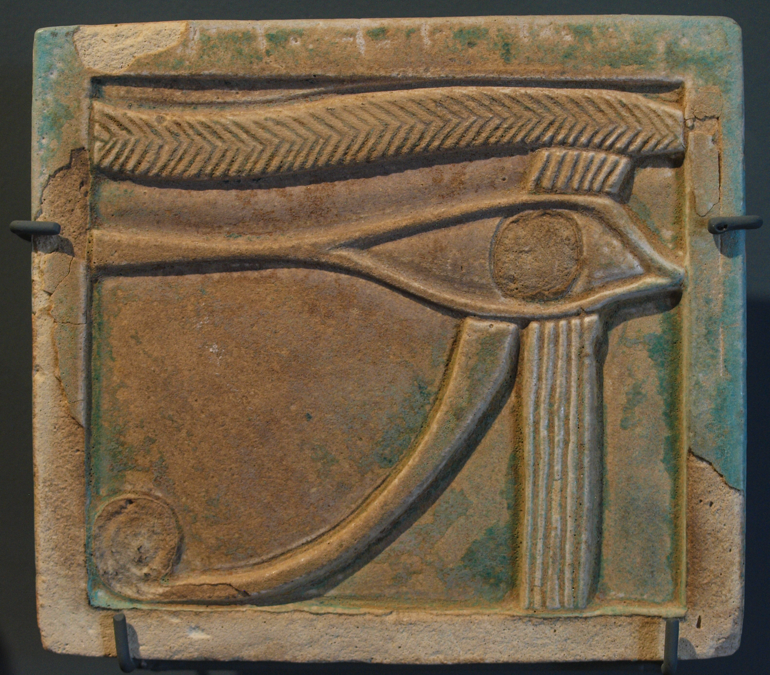 San Diego Museum of Man - Eye of Horus Tile